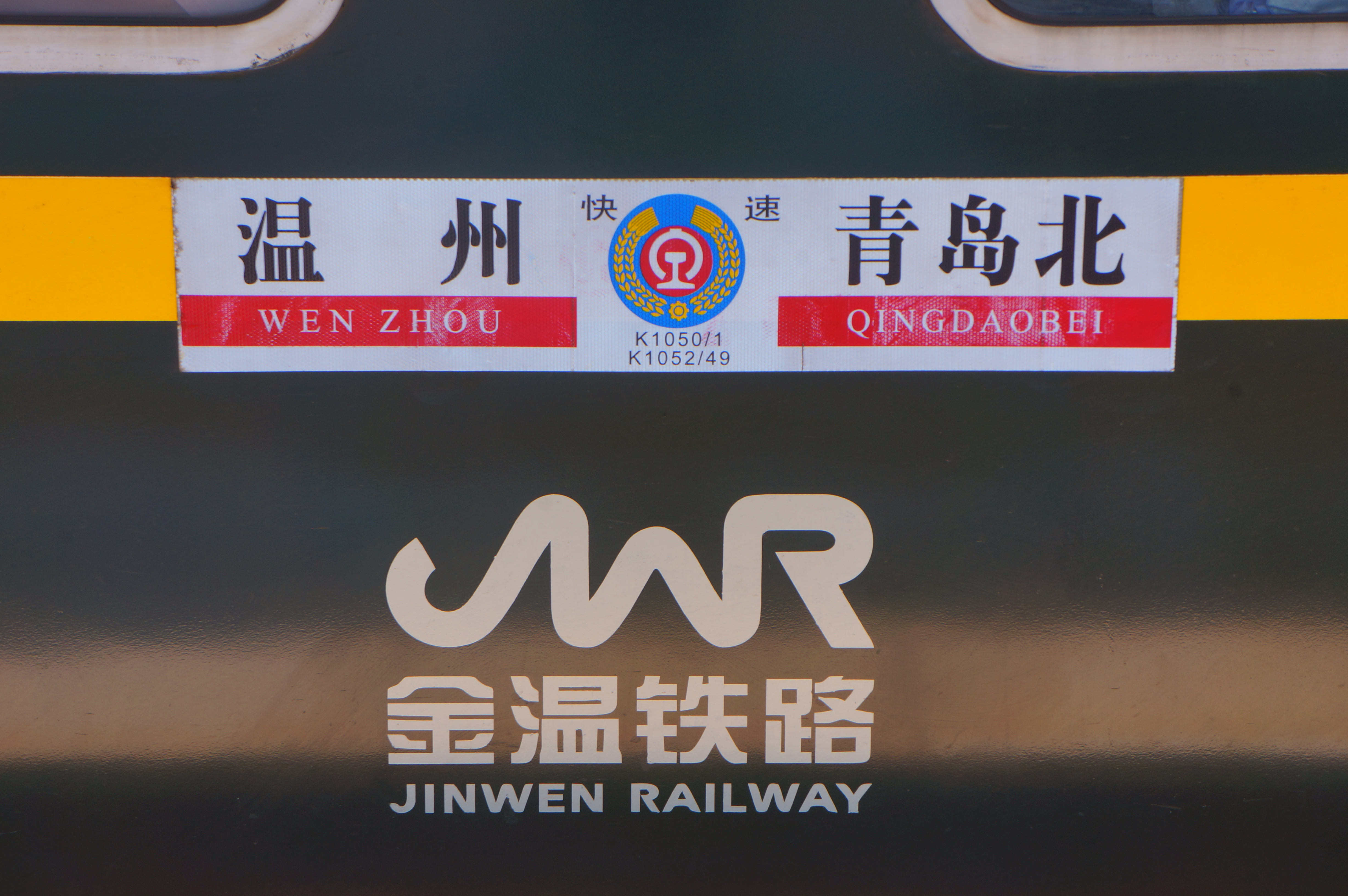 K1049 50 51 52 infoboard in 201708. Taken at Jinhuanan Station. Finally gotcha unintentionally